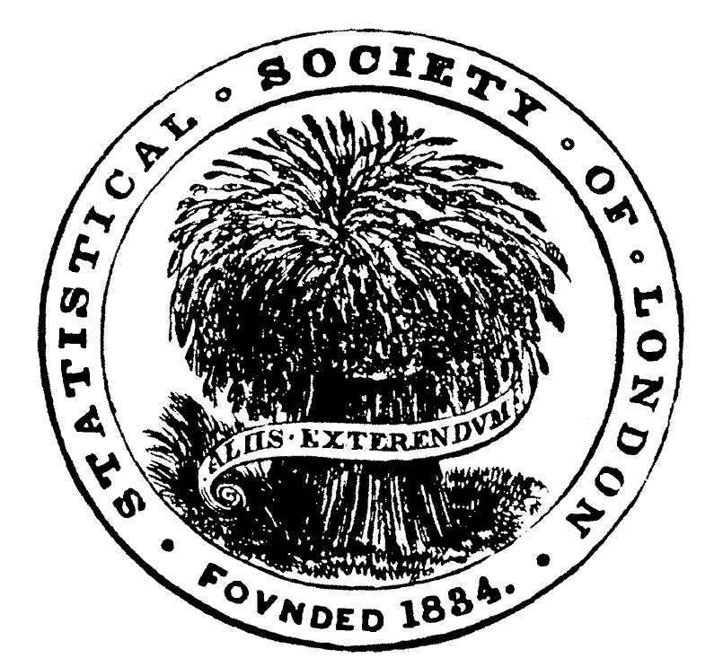 Logo of the Royal Statistical Society. It shows a wheatsheaf with the motto Aliis exterendum = to be threshed out by others.